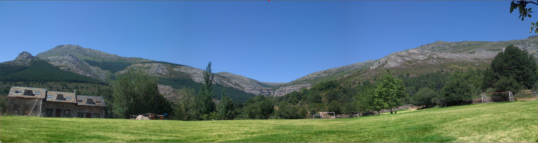 Valverde de los Arroyos